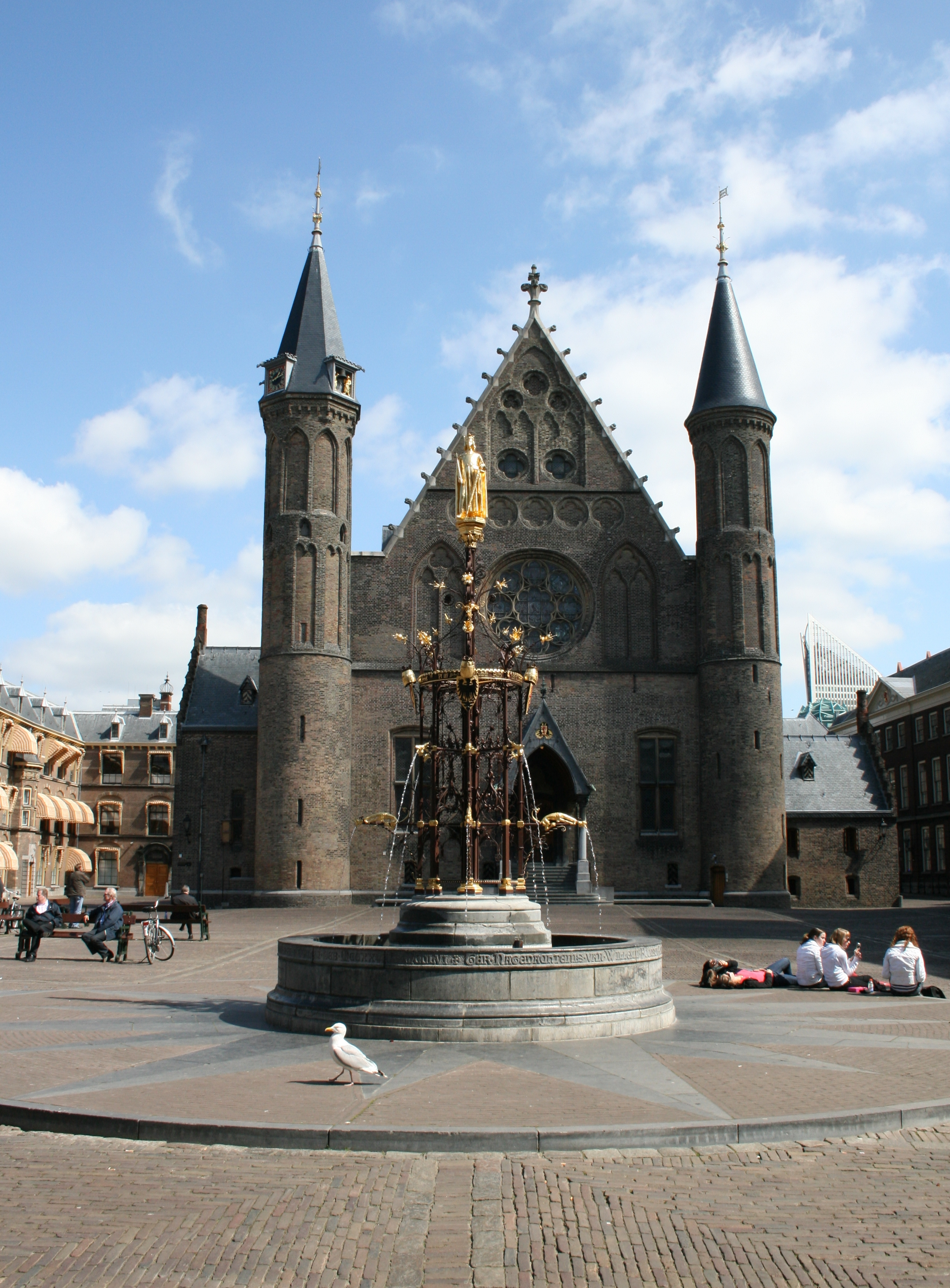 The Binnenhof in The Hague. The political centre of The Netherlands.